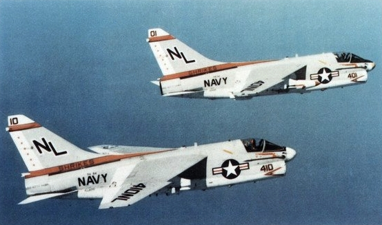 Two U.S. Navy McDonnell Ling-Temco-Vought A-7E Corsair II from Attack Squadron VA-94 Shrikes in flight. VA-94 was assigned to Carrier Air Wing 15 (CVW-15) aboard the aircraft carrier USS Kitty Hawk (CV-63) for a deployment to the Western Pacific from 1 April 1981 to 23 November 1981.